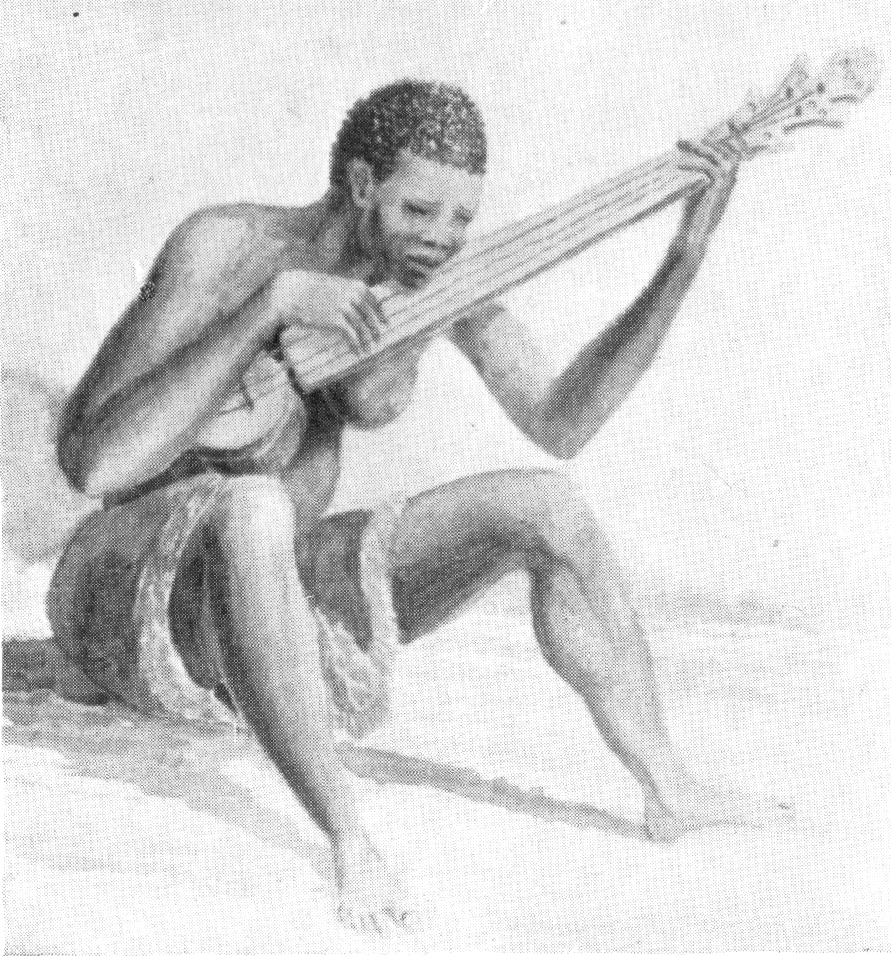 Drawing by Charles Davidson Bell: Hottentot playing upon the ramkie